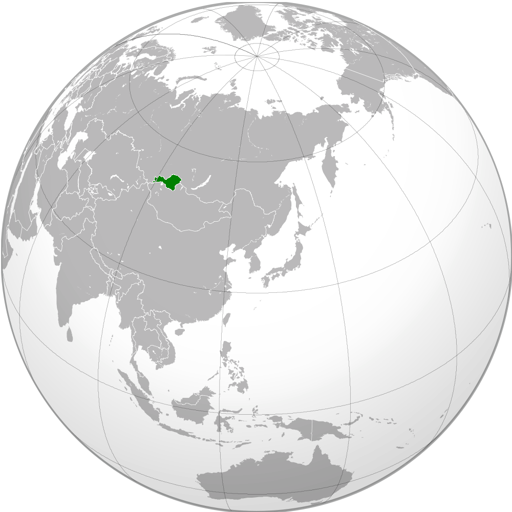 Green: Tuvan People's Republic